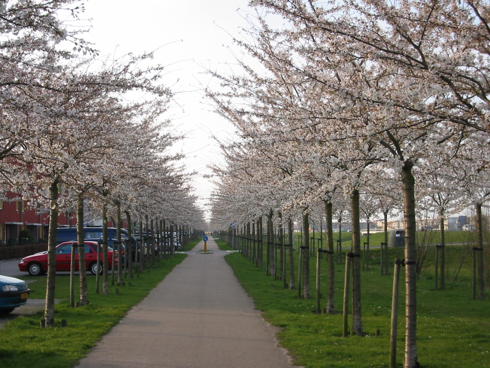 Lane in a park, probably Terracottastraat in Almere.